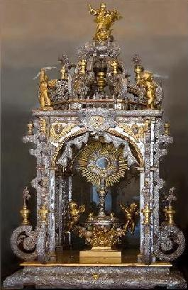 Andas del Corpus Christi de la iglesia de Santa María la Mayor de Ledesma. Fueron realizadas en 1719 por el orfebre Francisco de Ágreda